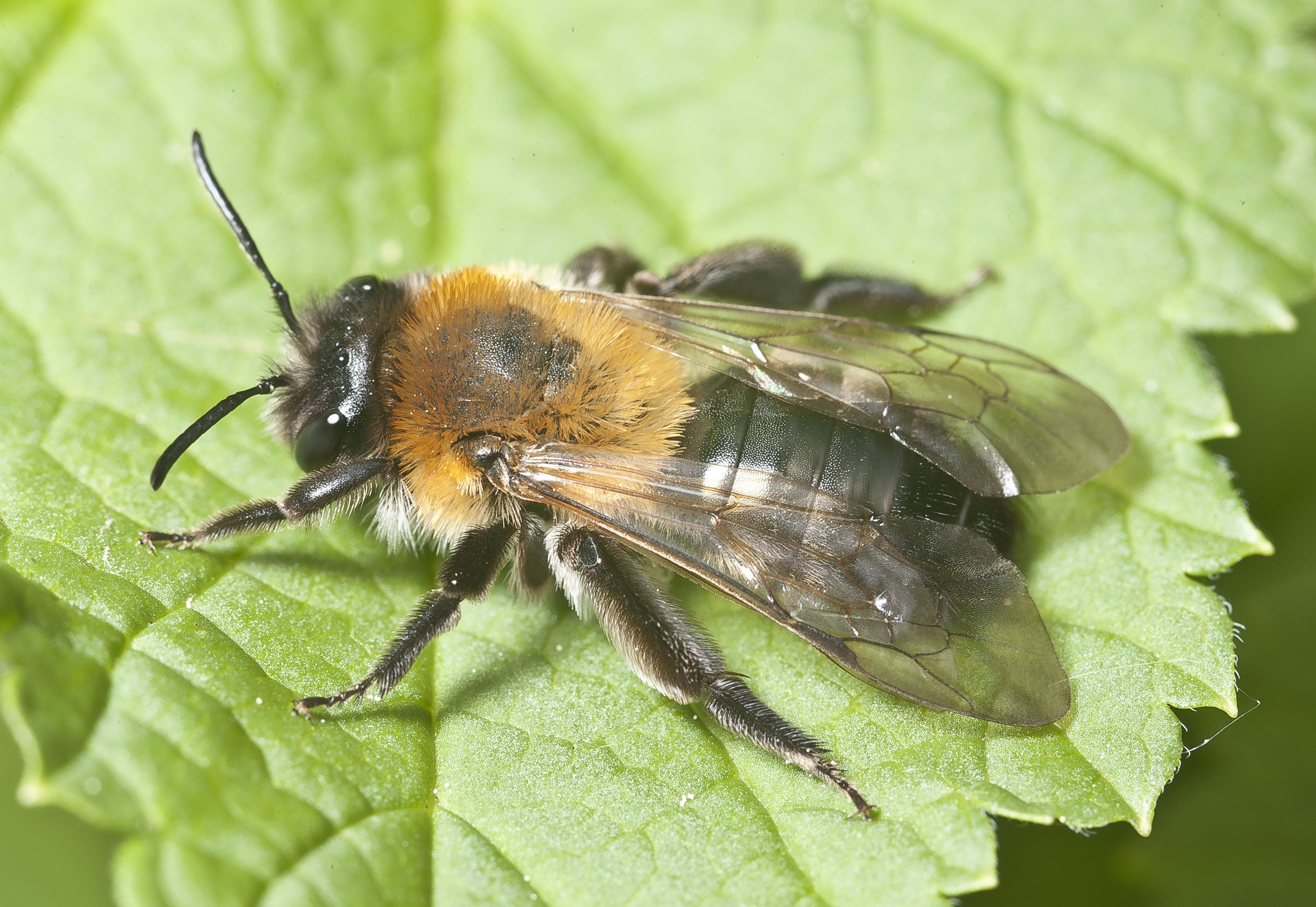 Andrena nitida, f, picture taken in Stuttgart, Germany. Thanks to the members of Entomologie.de for the identification.